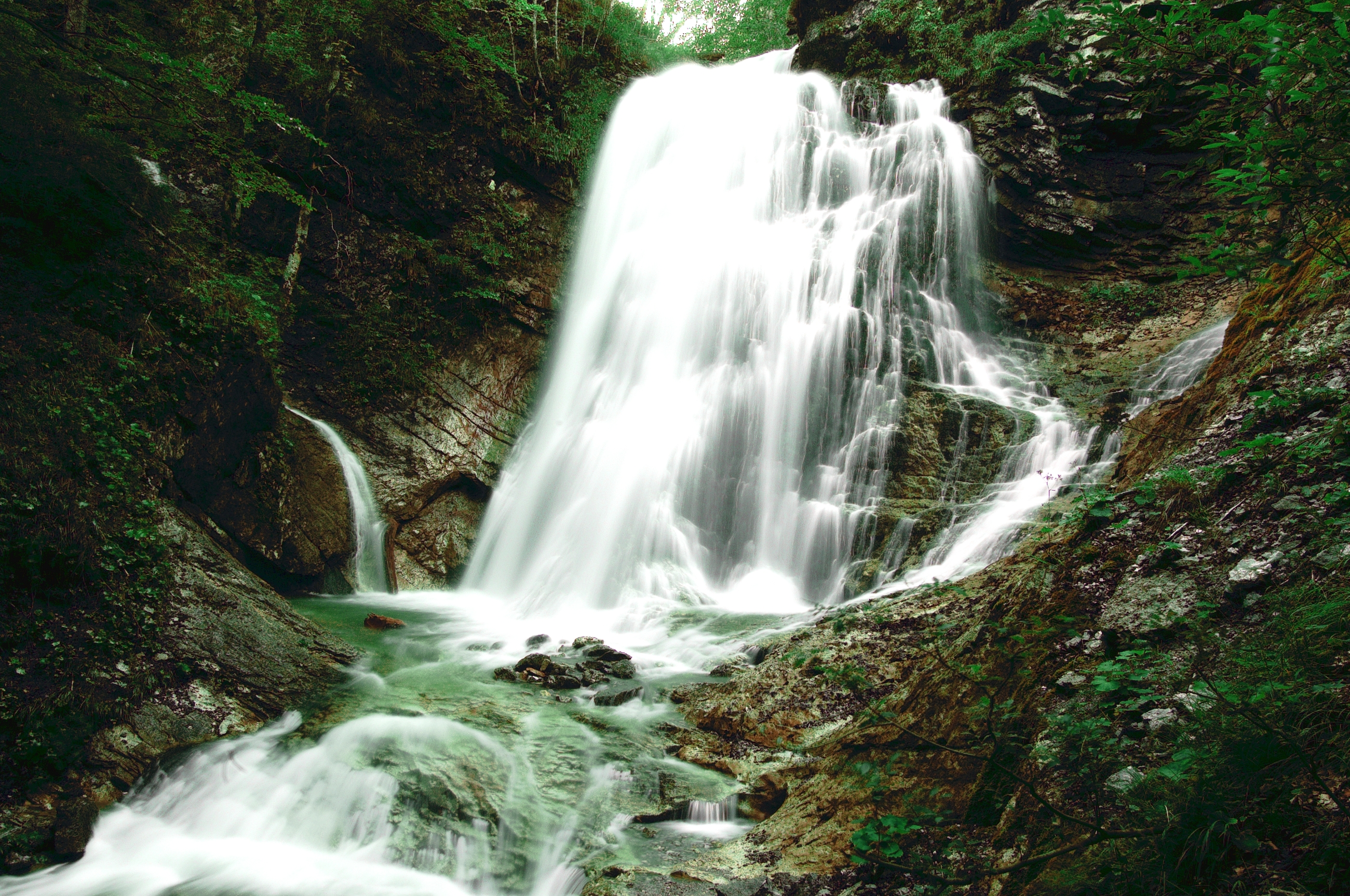 Stegovnik Waterfall, Jelendol, Tržič, Slovenia. Image is maniputated with The Gimp and Qtpfsgui (light in upper-left corner is stressed and RAW is converted into a HDR image, I manually changed white balance and do some tone-mapping)